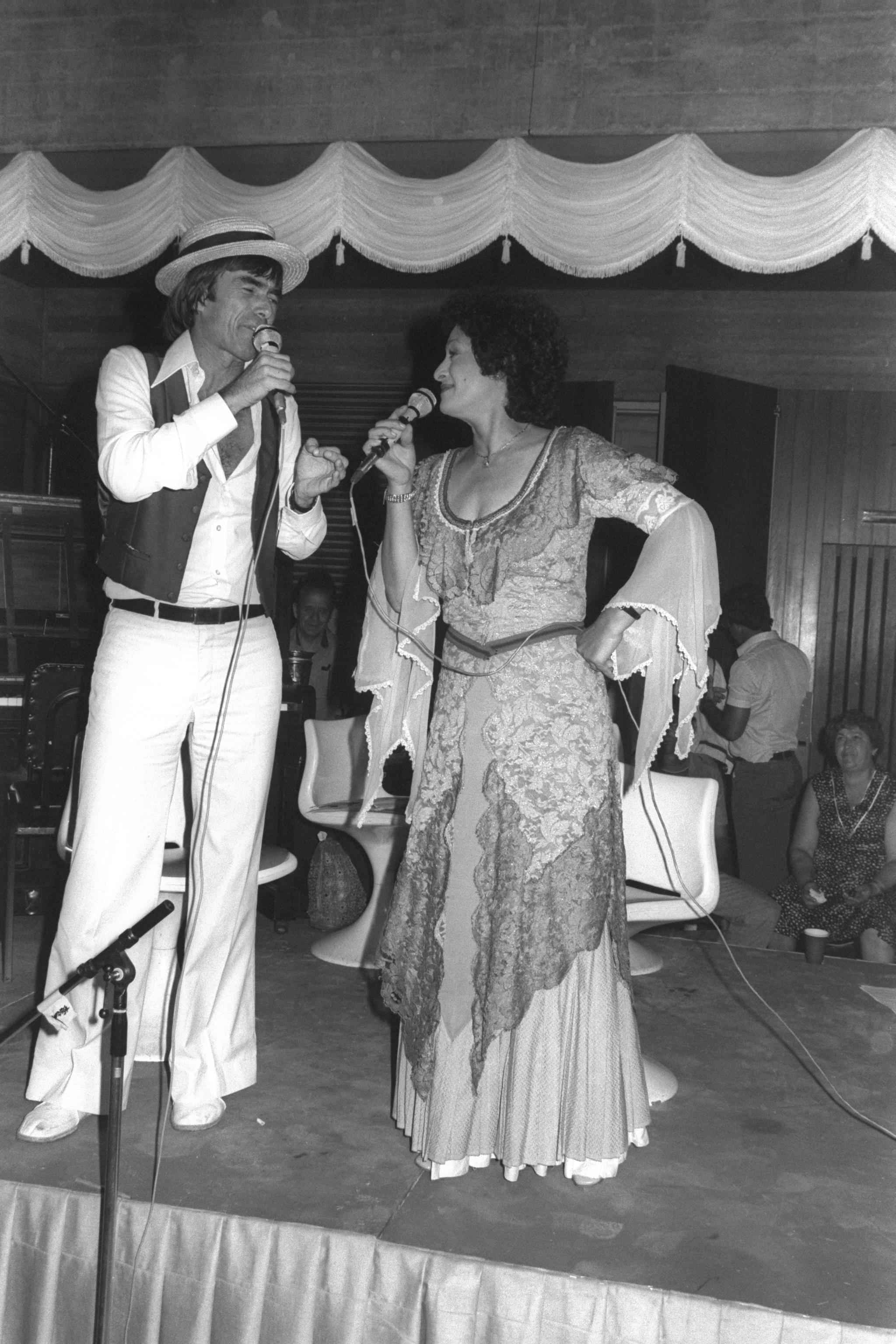 Entertainers Yona Atari and Eli Gorelitzky present songs of the Thirties at Tel Aviv Anniversary Celebrations. יונה עטרי ואלי גורליצקי בחגיגות יום השנה של העיר תל אביב Photo: BLOOM ILANA, 06/07/1979